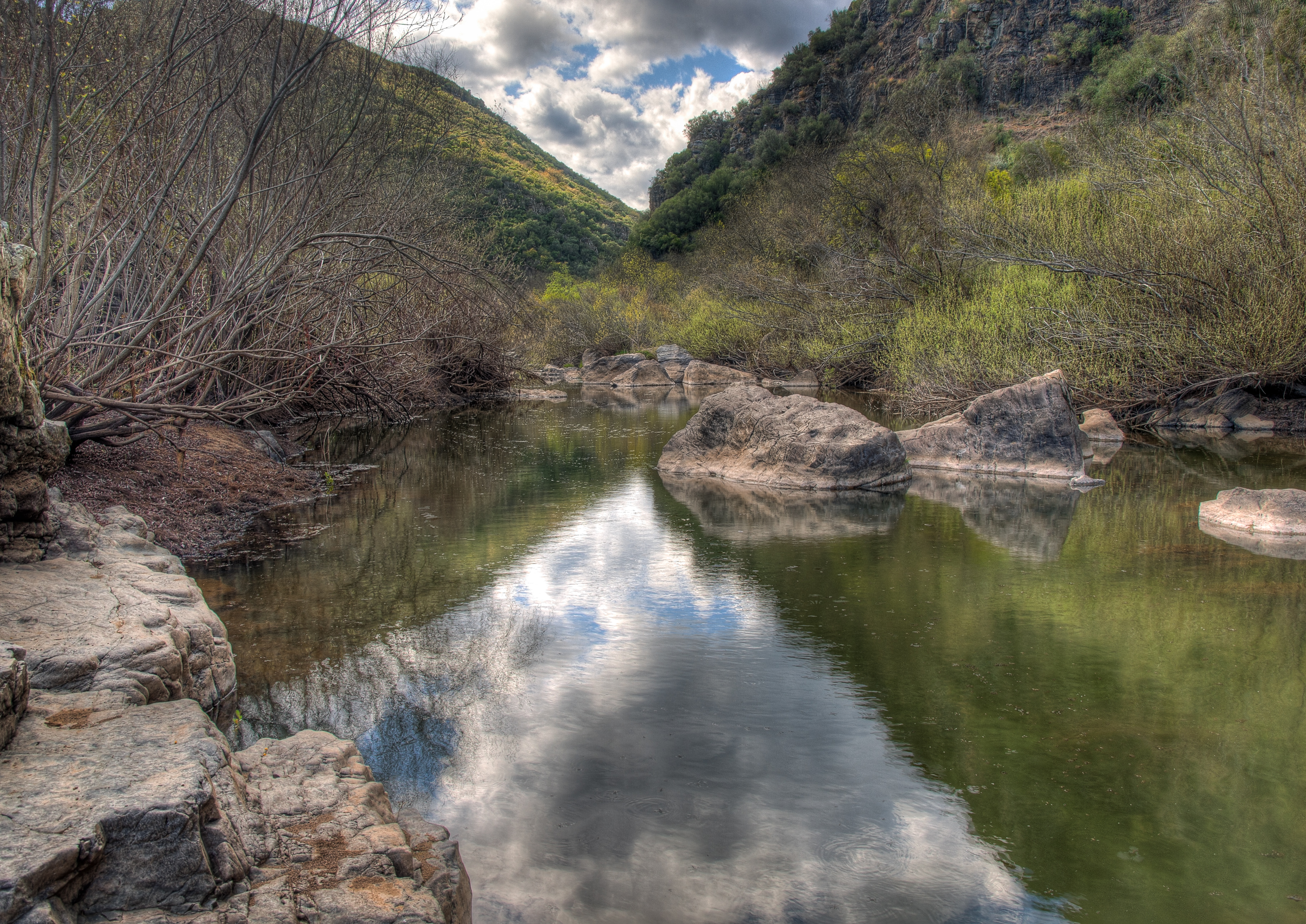 Guadiato river near Santa María de Trassierra